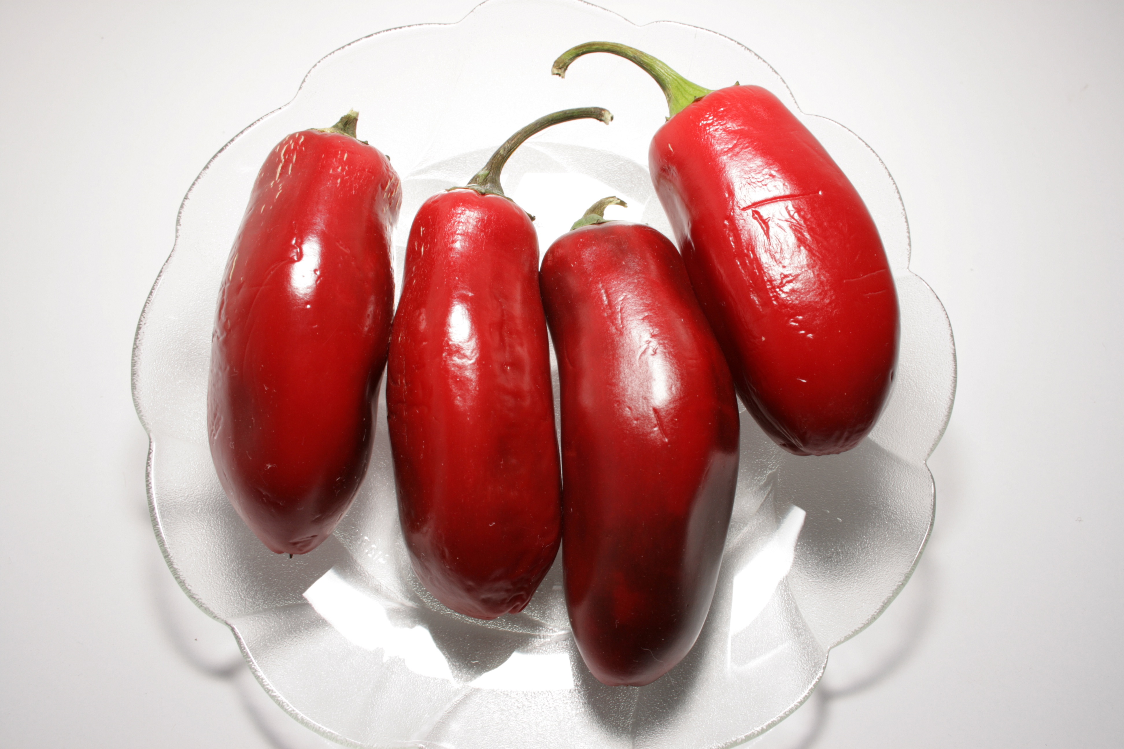 Fresh Jalapeño